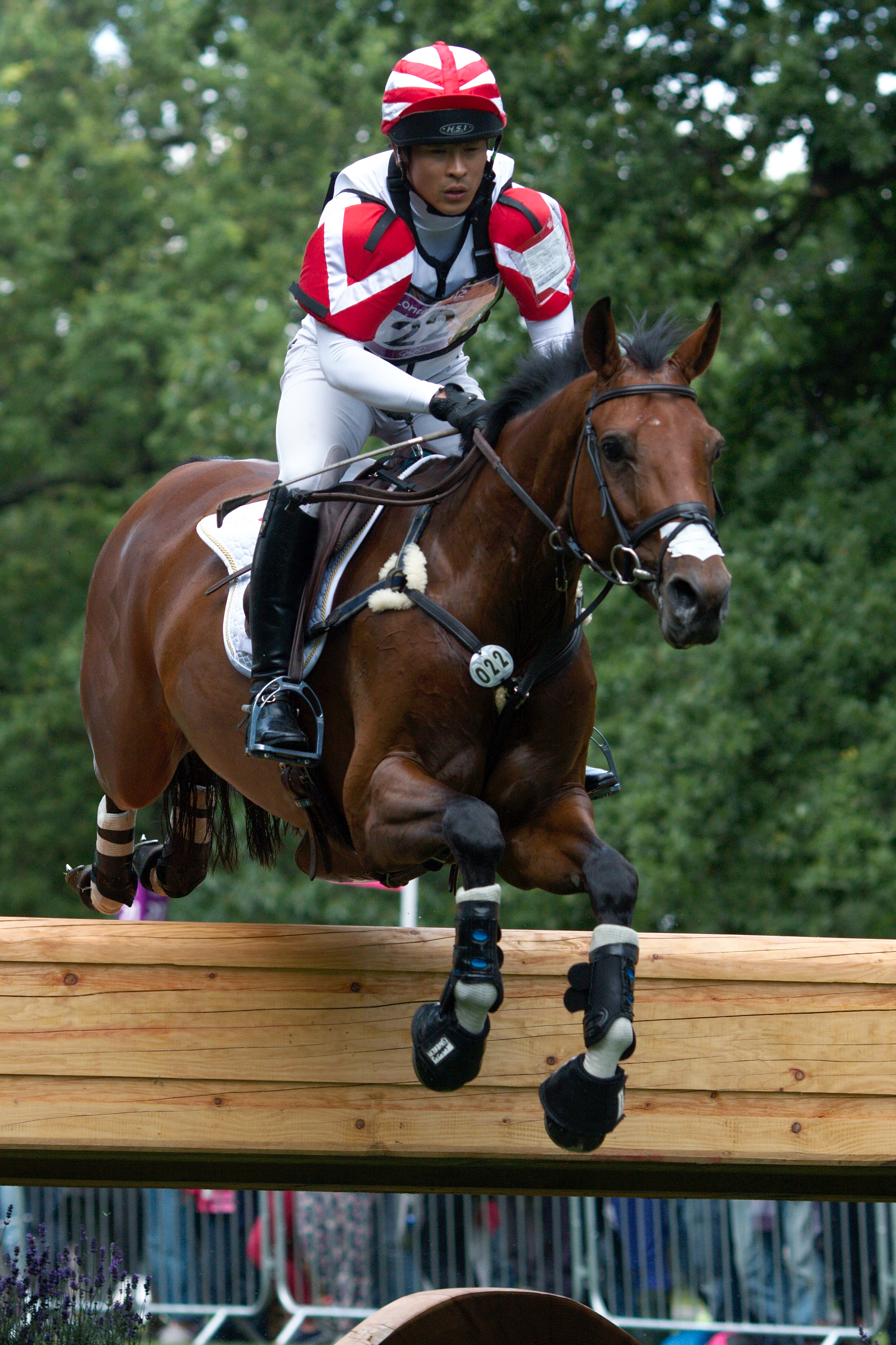 Takayuki Yumira and Latina, competing for JPN, at fence 21, during the cross-country phase of the Eventing during the 2012 Olympic Games in Greenwich Park, London.